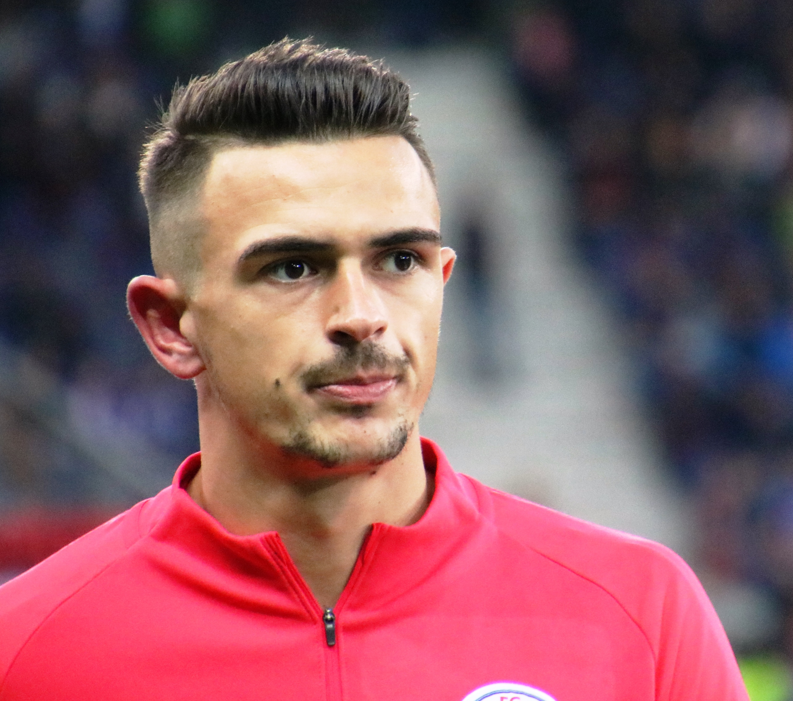 UEFA Euroleague group stage 2nd Round